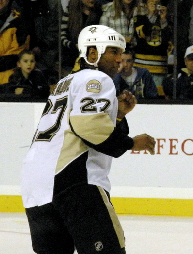 Georges Laraque, right wing for the Pittsburgh Penguins, taken on at TD Banknorth Garden during a fight with Zdeno Chara